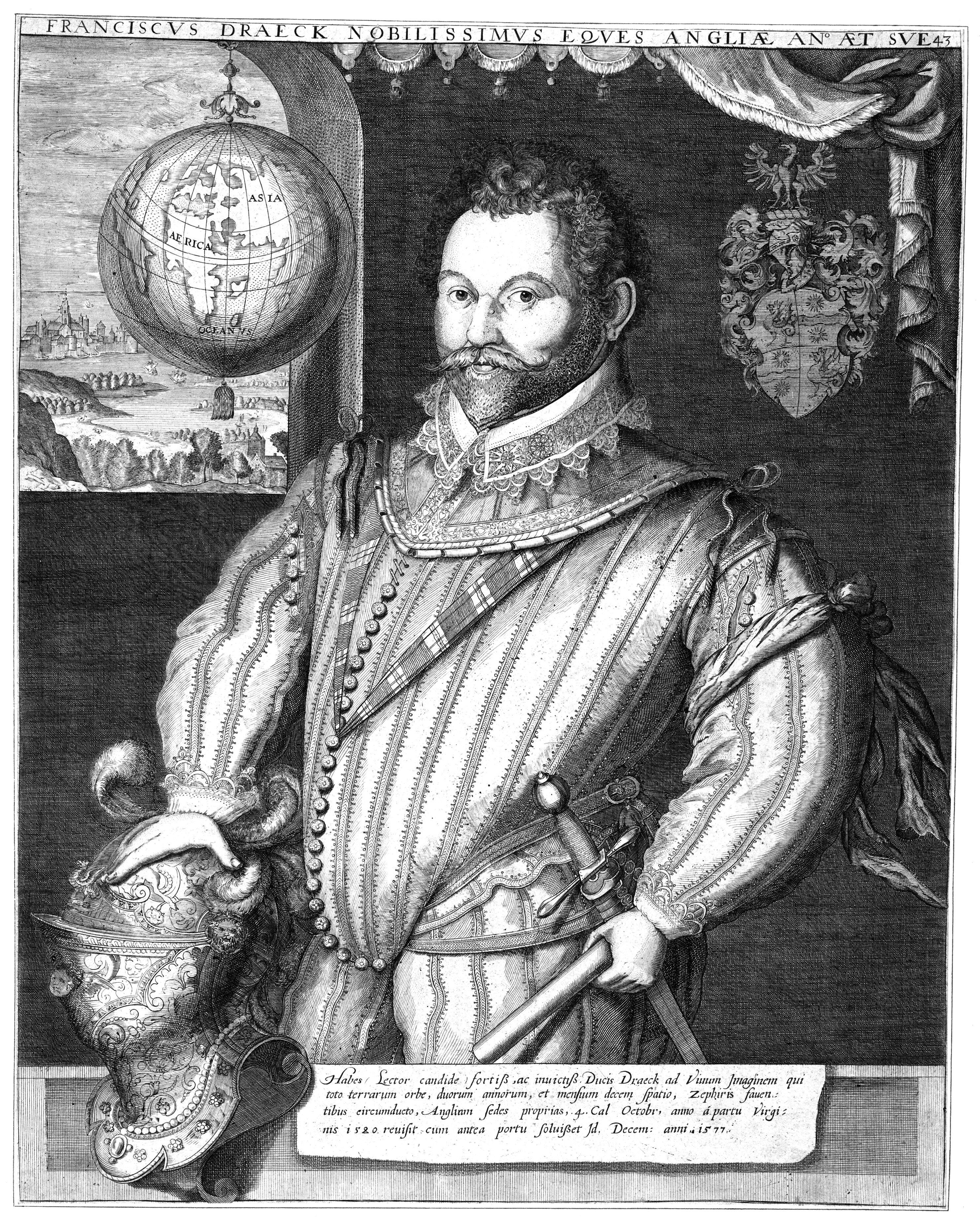 1577 engraving of Sir Francis Drake by Jodocus Hondius, edit by George Vertue in the 18th century and published in "Franciscus Draeck Nobilissimus Eques Angliae Ano Aet Sue 43"